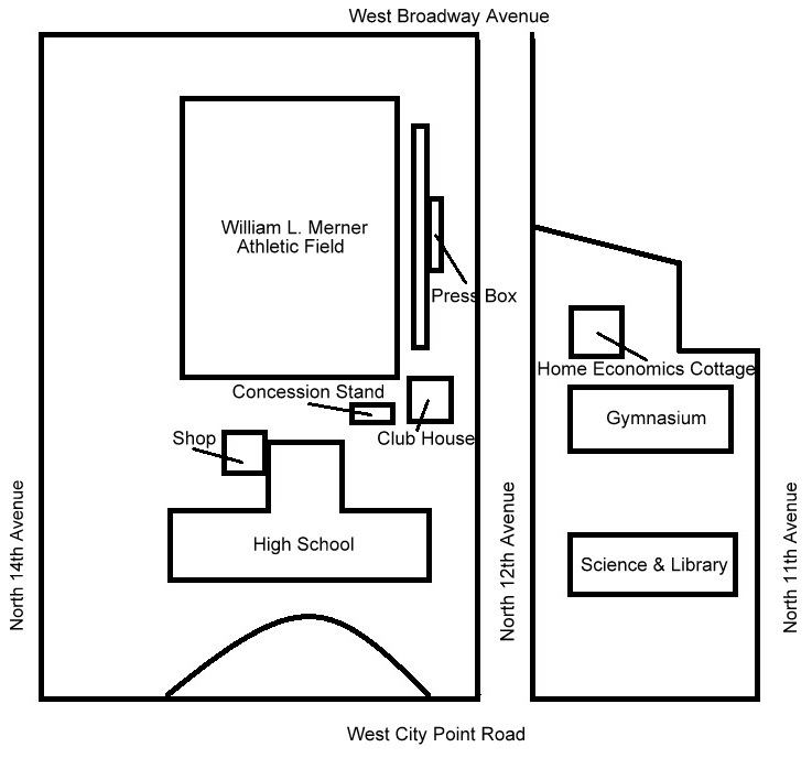 Diagram of the Hopewell High School Complex, in Hopewell, Virginia.